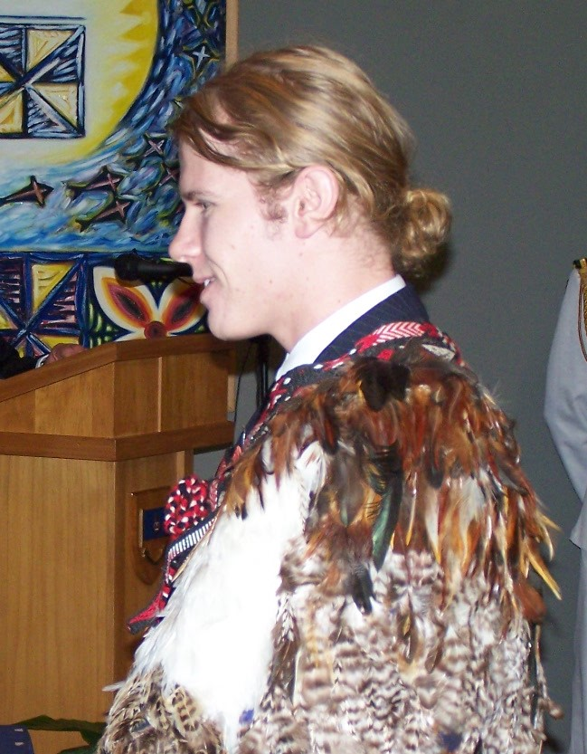 Cameron Leslie pictured at his investiture ceremony